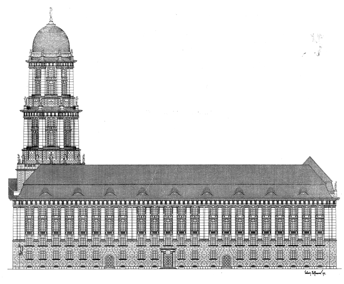 Outline of the Altes Stadthaus, Berlni